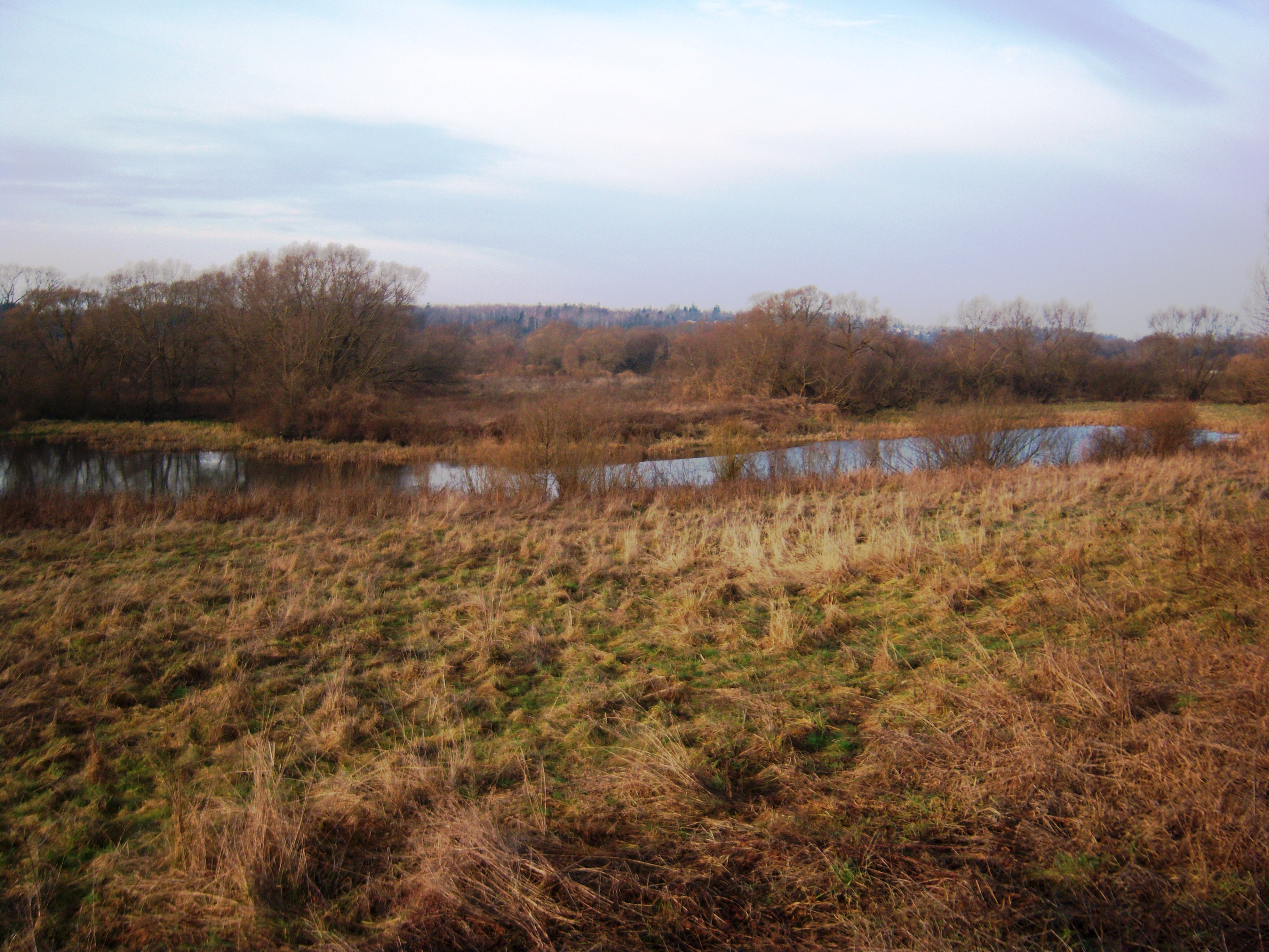 Kreivežeris Lake, Kaunas District, Lithuania